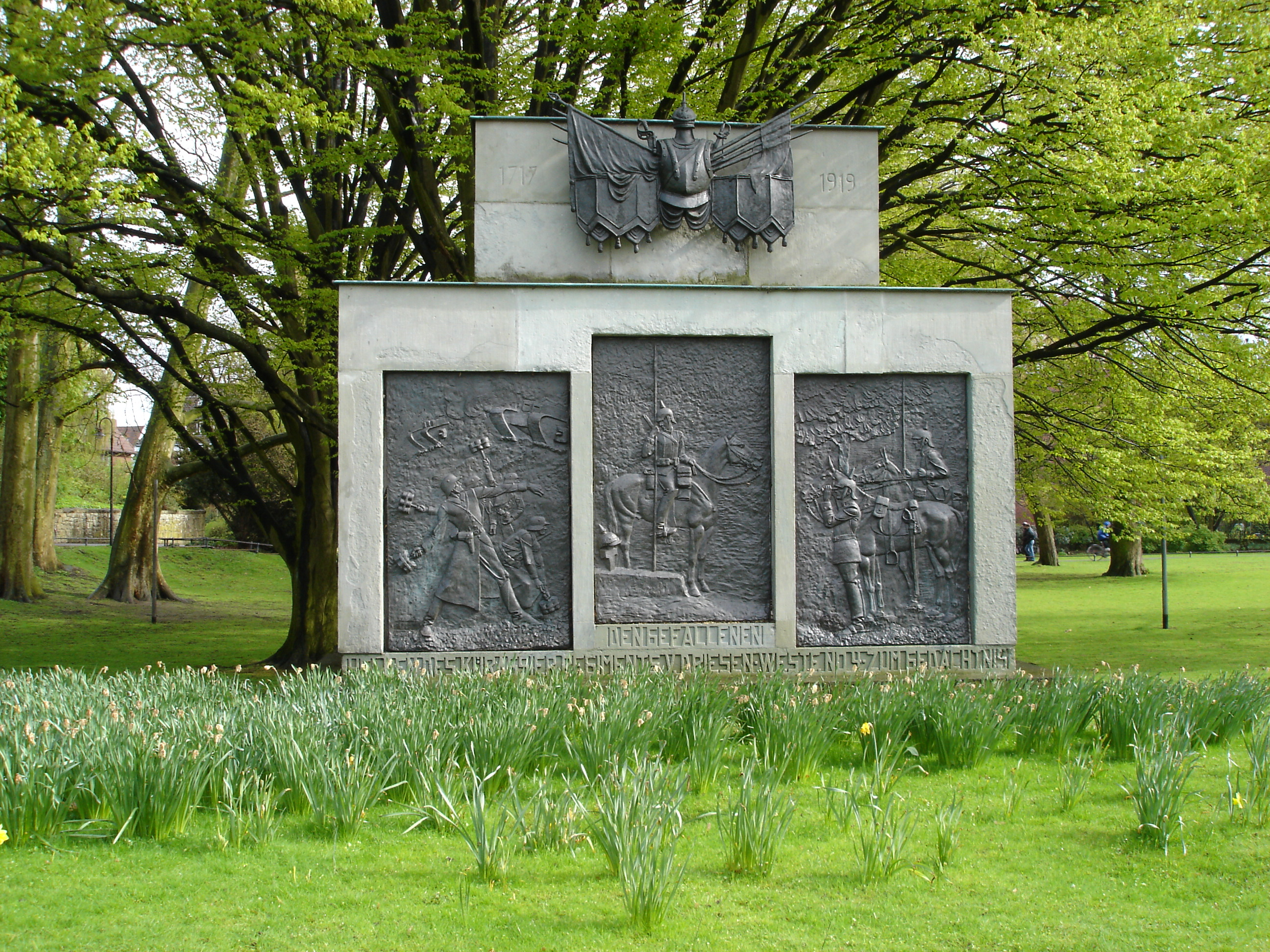 Memorial of the cuirassier regiment "von Driesen (Westfalen) No. 4" in Münster, Westphalia, Germany. Text below the memorial: "Den Gefallenen Helden des Kürassier-Regiments v. Driesen Westf No. 4 zum Gedächtnis" ("In memory of the fallen heros of the cuirassier regiment v. Driesen Westf No. 4.")